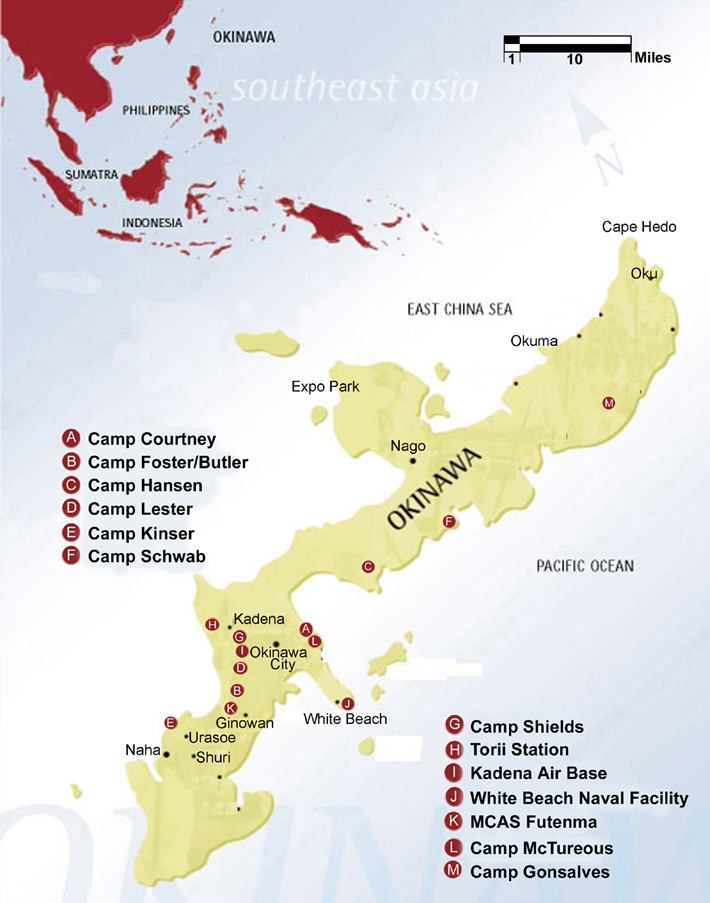 Map of Okinawa showing locations of US Bases.